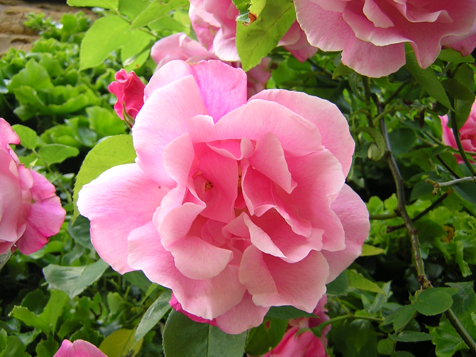 A pink Madame Gregoire Staechelin rose, in full flower. Photo taken by me.